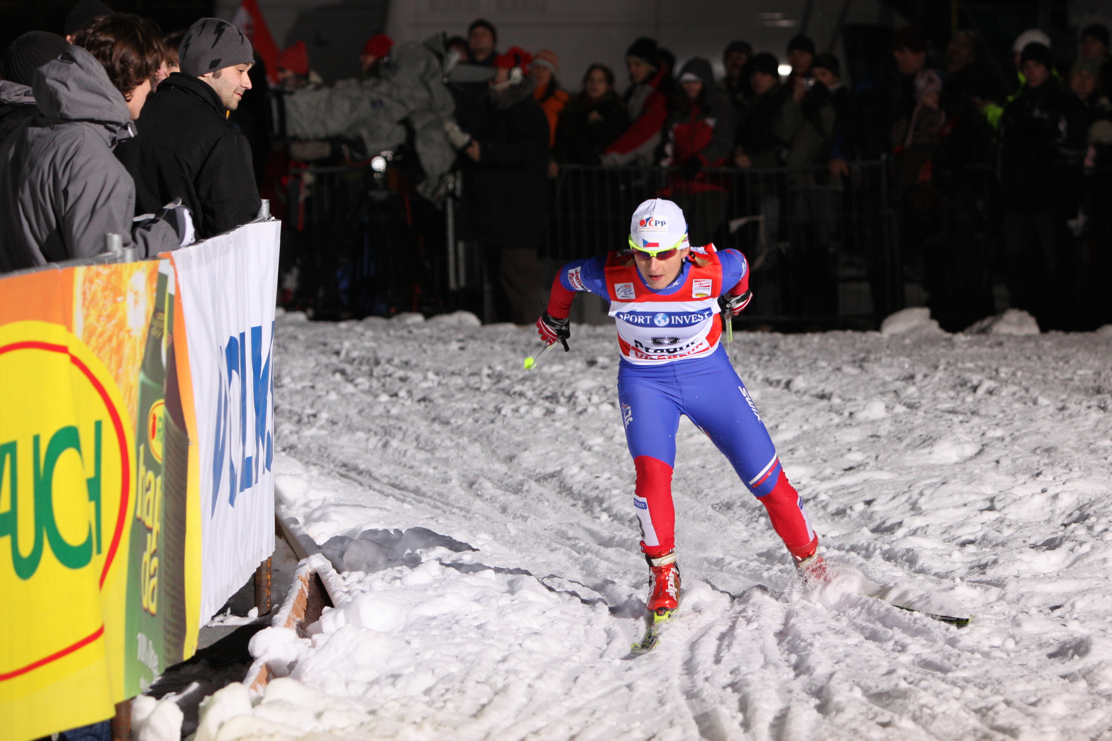 Ivana Janečková competes at Ski Sprint Praha in 2010